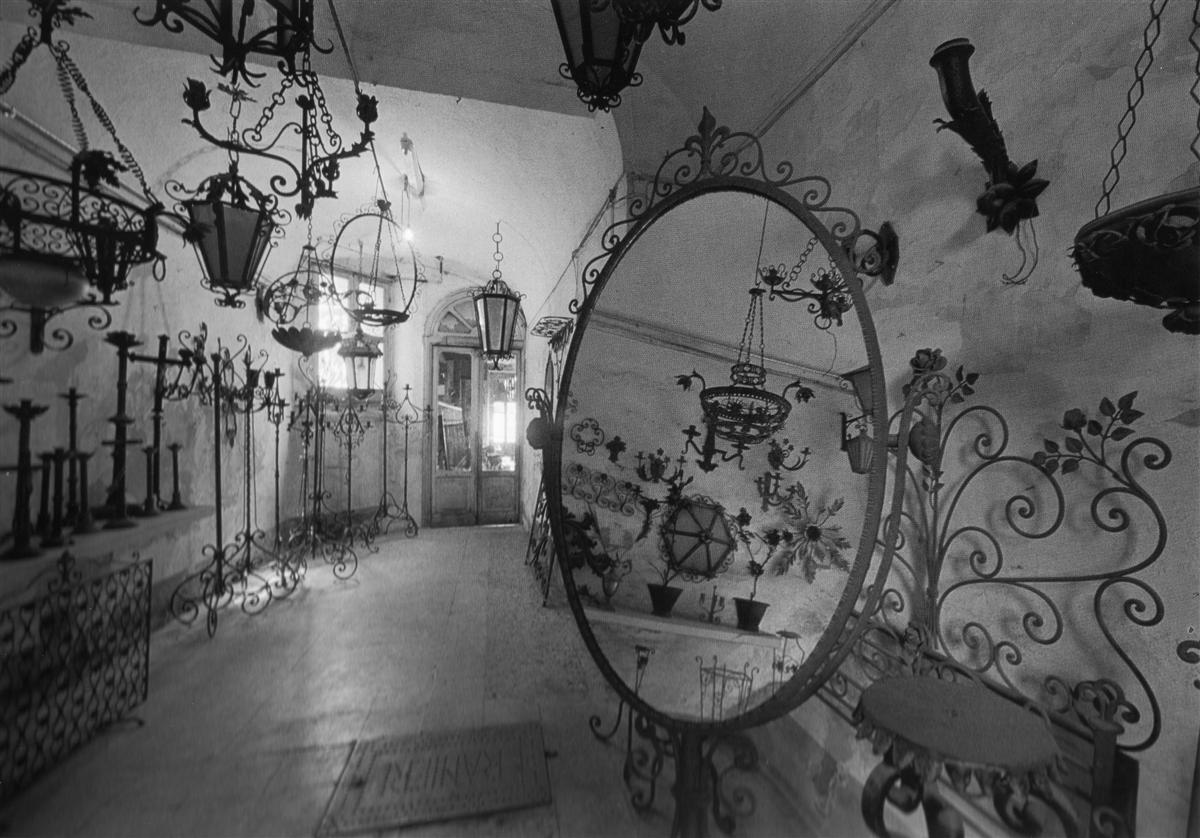 BOTTEGA RANIERI